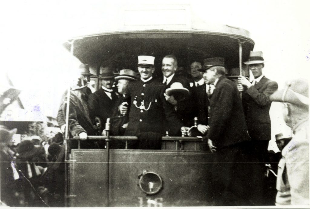 The first tram to the Grange, 1928. Sergeant Edward Creedy watches the festivities, he is facing away from camera in the bottom right hand corner of the image. These people are on the back of the tram: Mr Muirhead, President of the Progress Association; Alderman Lanham, Brisbane City Council; William Jolly, Lord Mayor; James Kerr MLA. PM0728 Courtesy of the Queensland Police Museum. The event is described in more detail in this newspaper report.